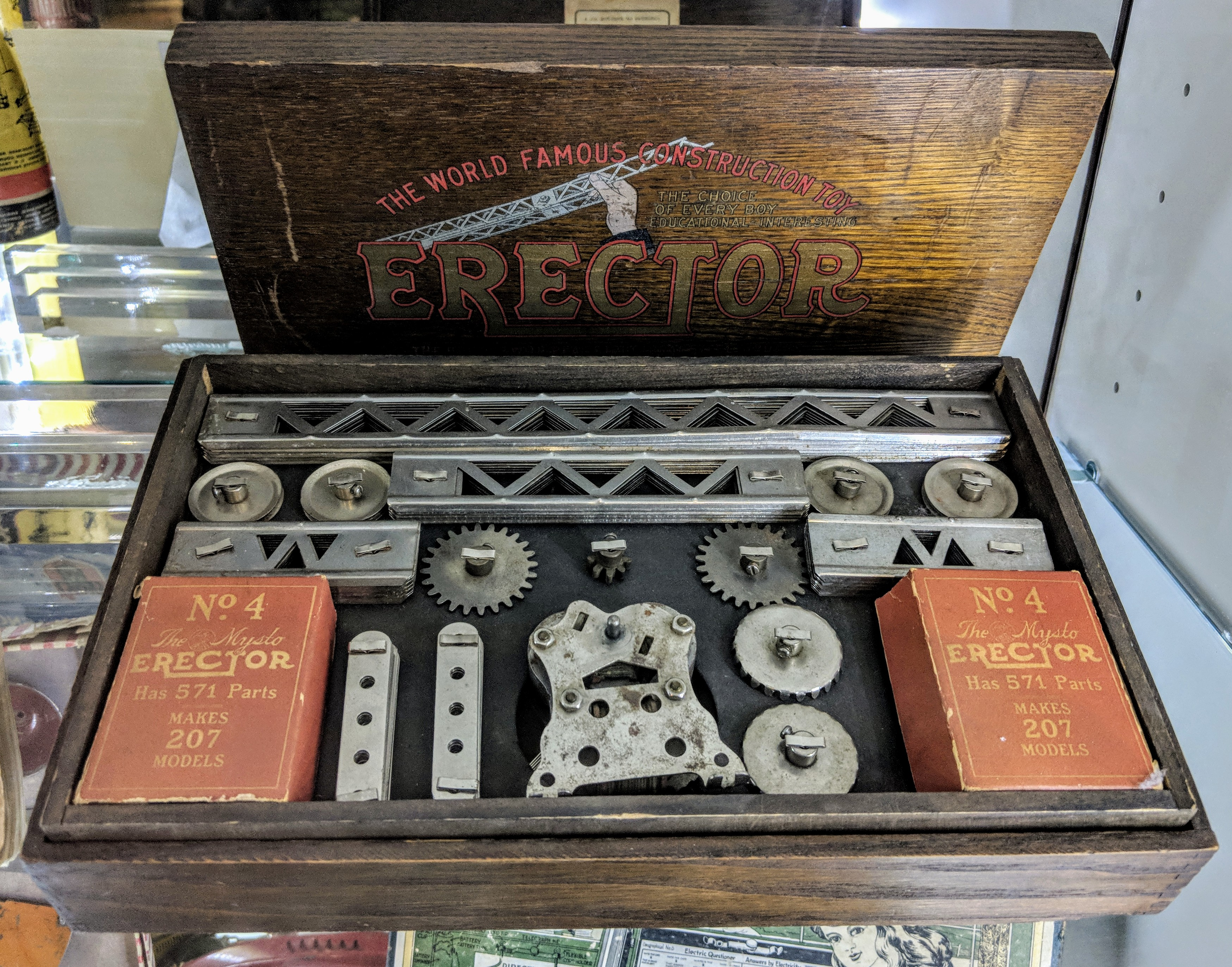 An early Erector set, at the California State Railroad Museum. Photo by Jim Heaphy.